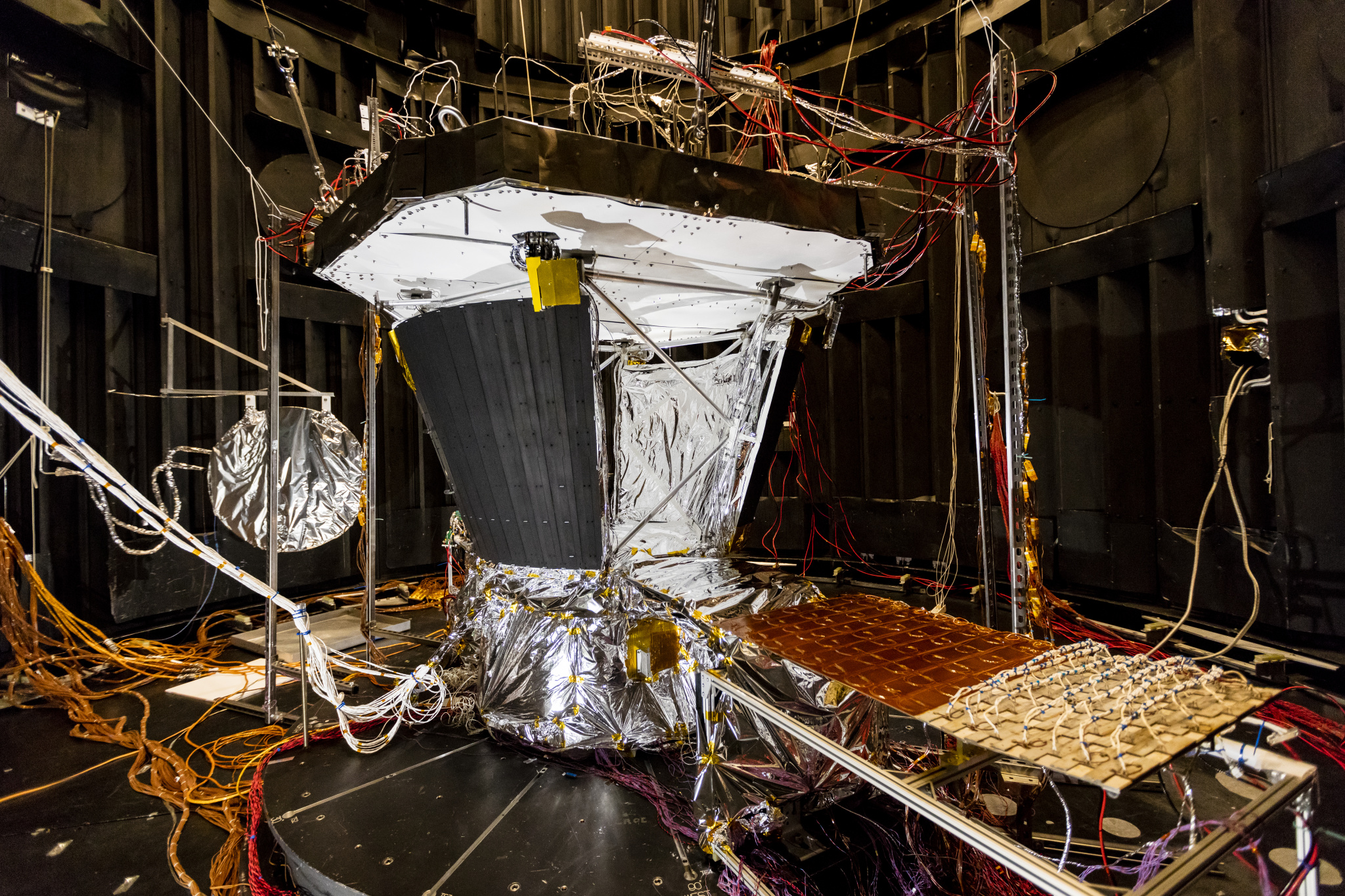 The solar array cooling system for the Parker Solar Probe spacecraft—one element of which is the large, square black radiator visible at center, one of two that will be installed—is shown undergoing thermal testing at NASA Goddard Space Flight Center in Greenbelt, Maryland in late February